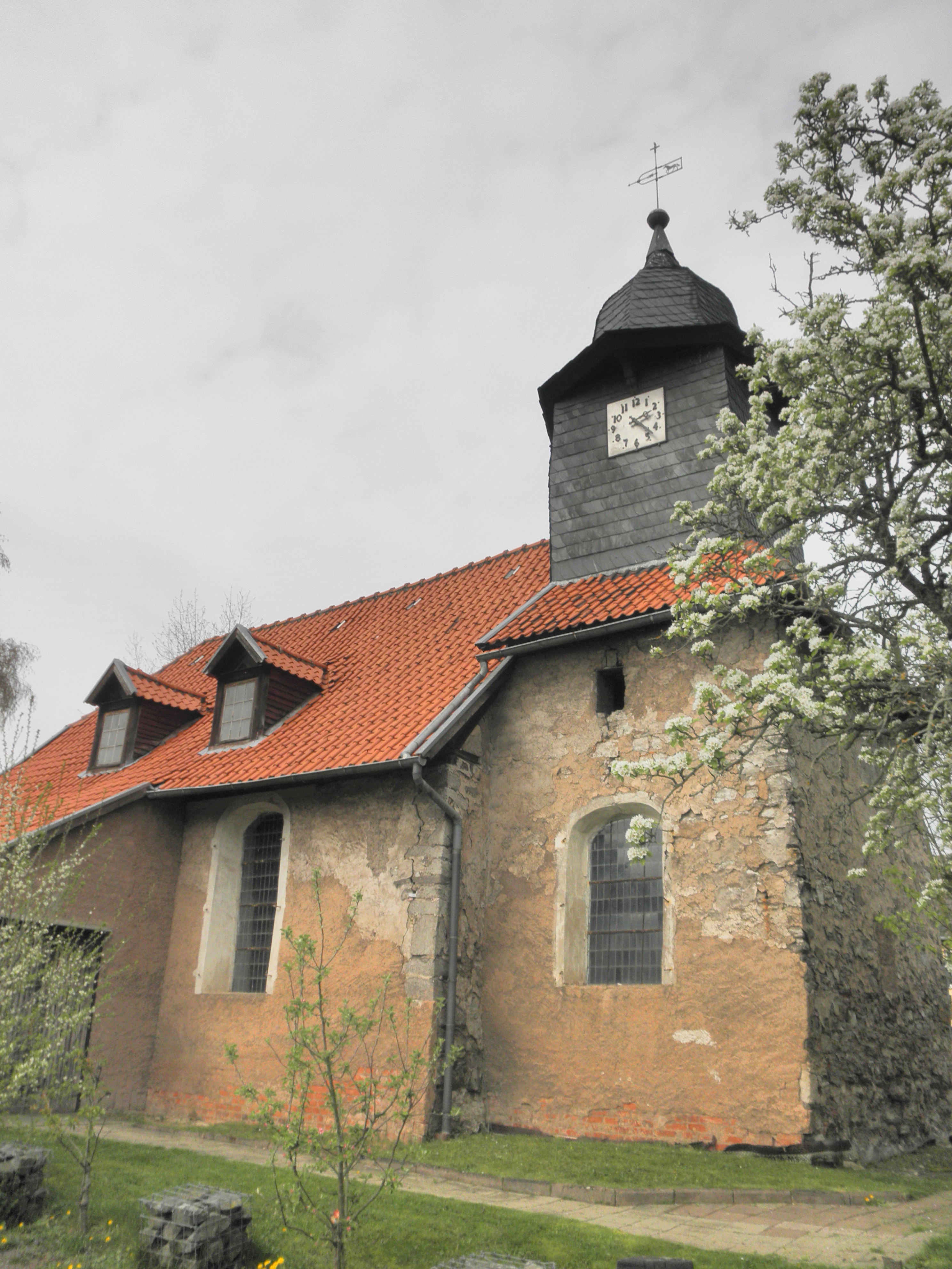 Church in Petersdorf (Nordhausen) in Thuringia